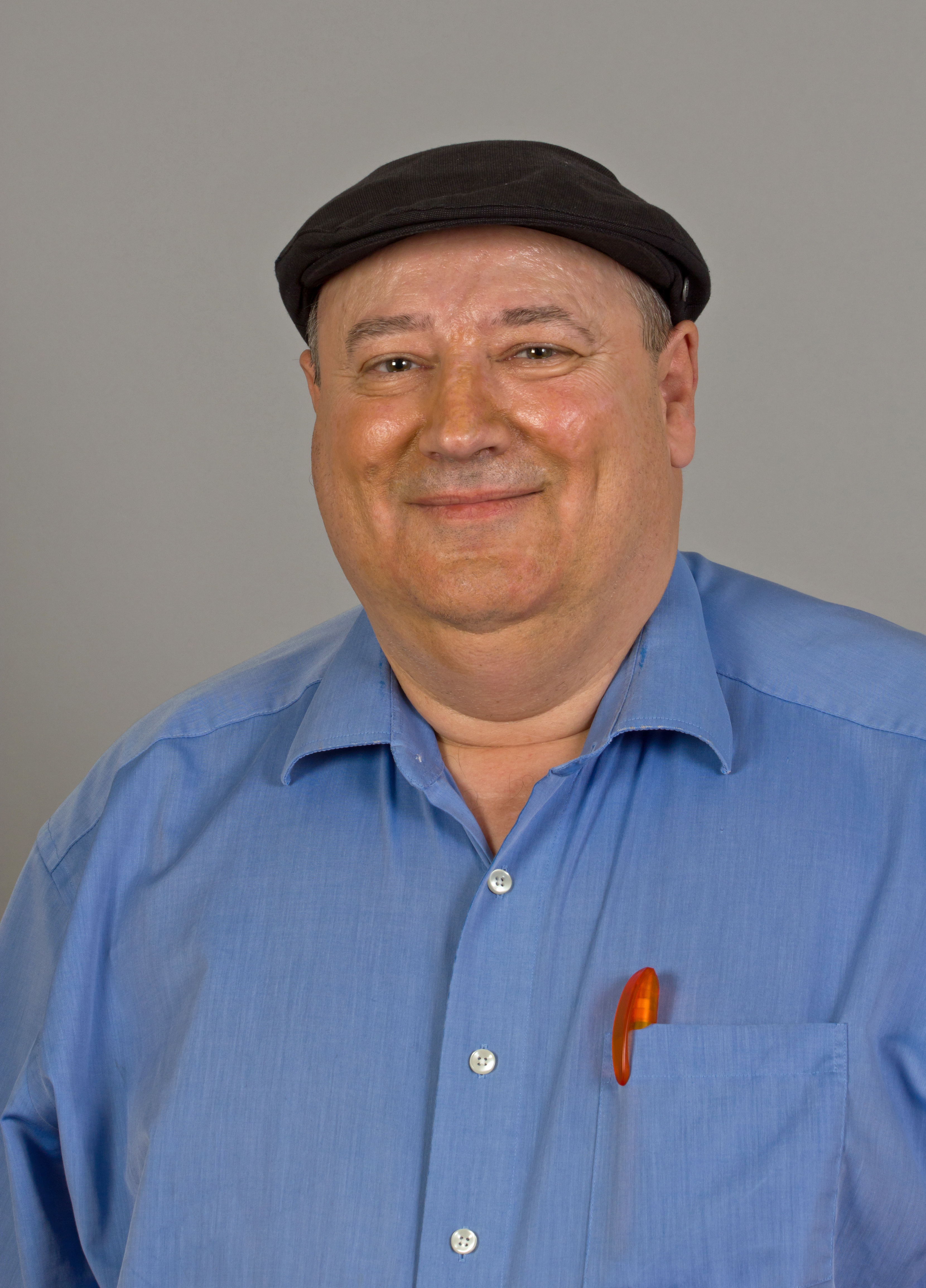 Alexander Spies, politician from Germany, member of Abgeordnetenhaus of Berlin (as of 2013)